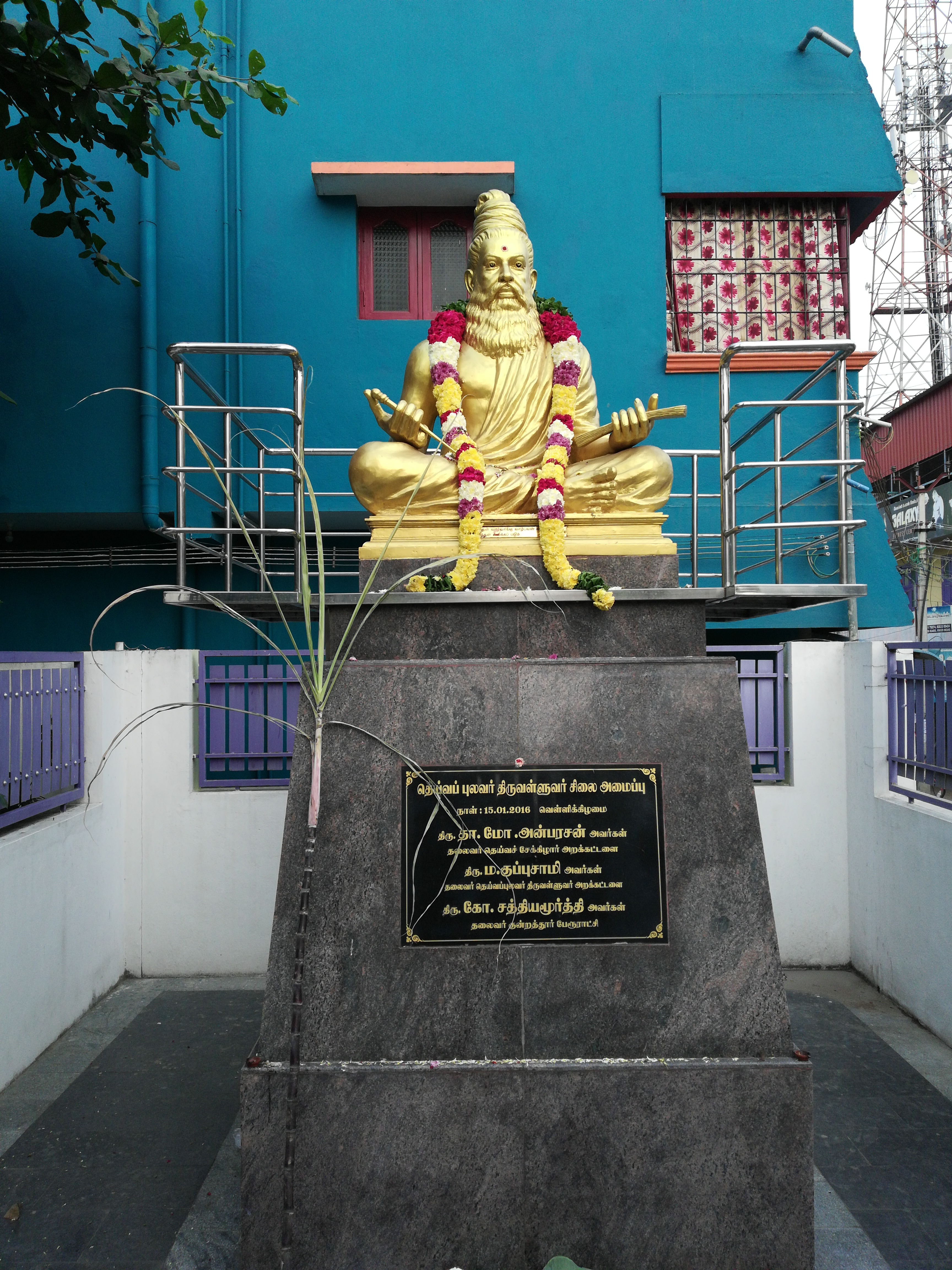 Statue of Valluvar at Kundrathur, Chennai, taken on 15 January 2019